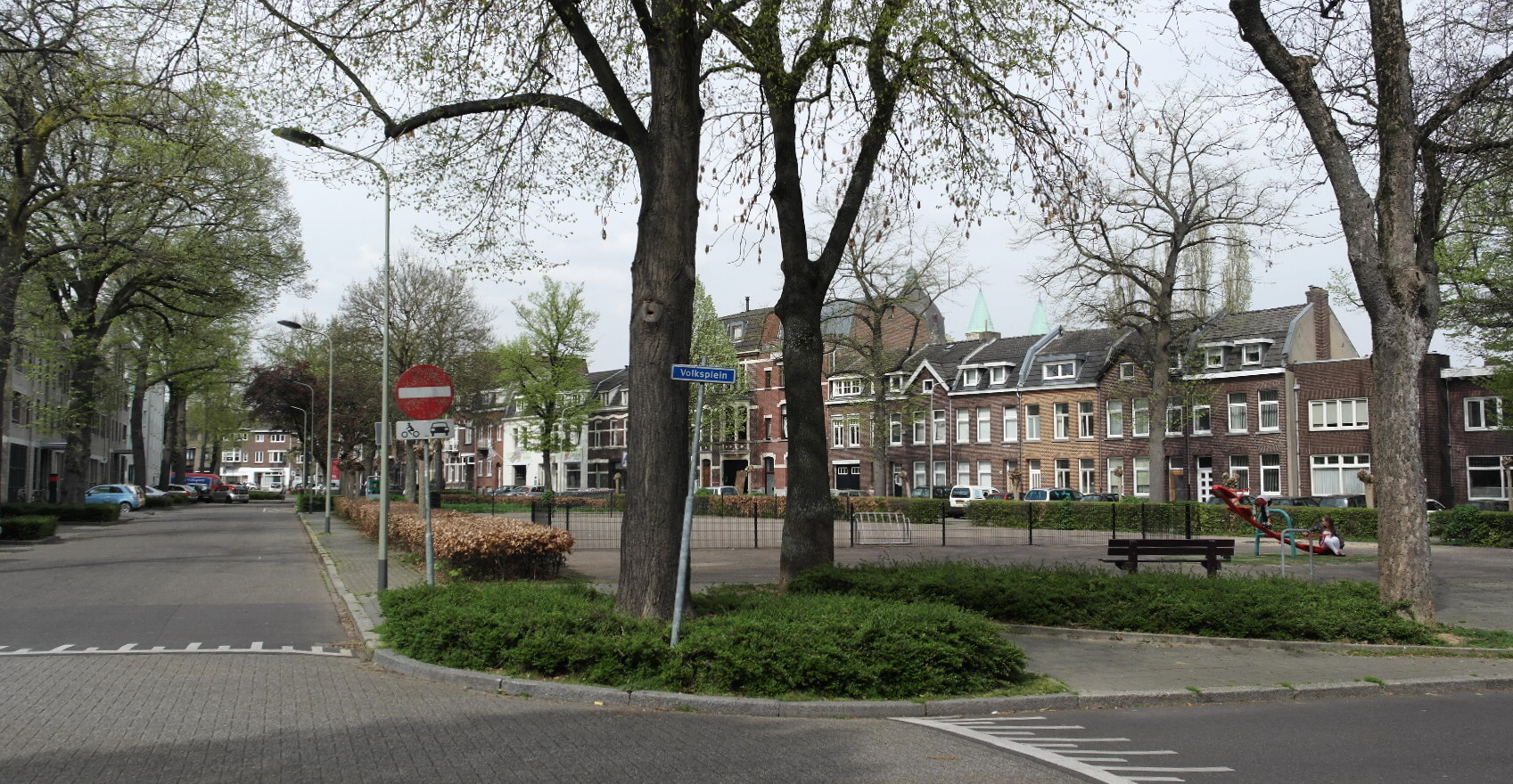 Maastricht, the Netherlands. View of Volksplein in the neighbourhood of Mariaberg-Blauwdorp.